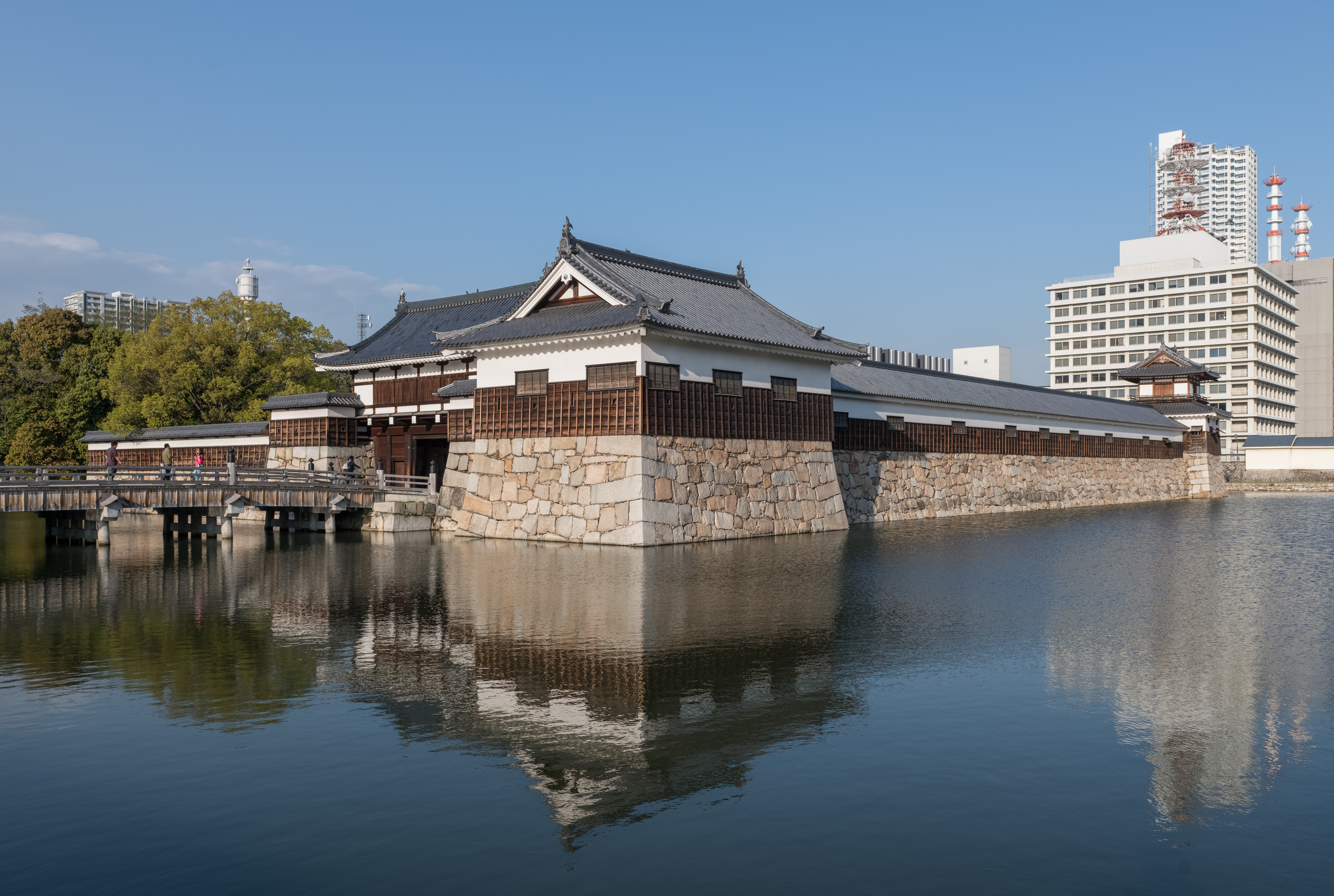 A west view of Hiroshima Castle, depicting Hira-Yagura turret that forms part of the Ninomaru